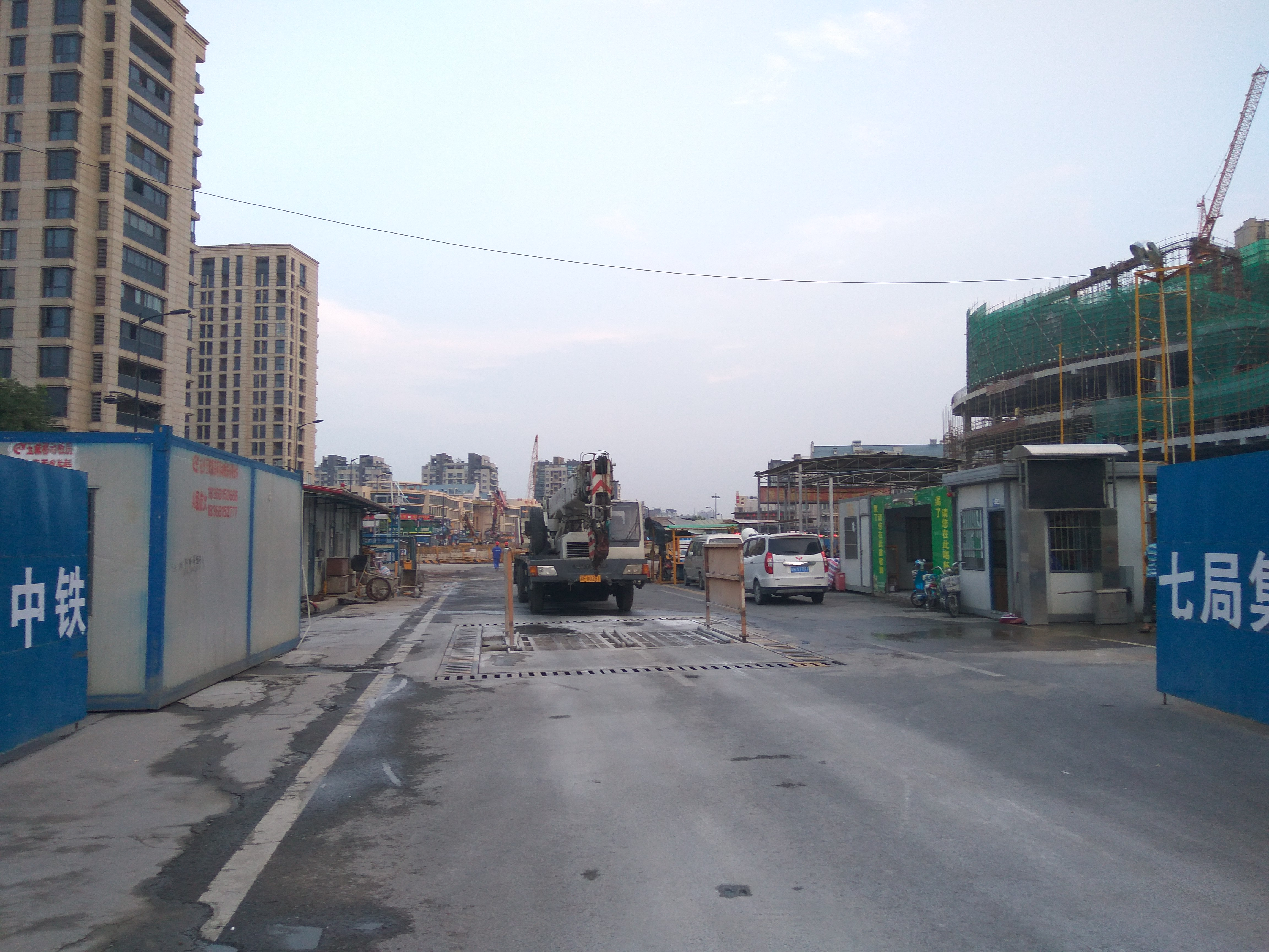 201608 Gouzhuang Station under construction